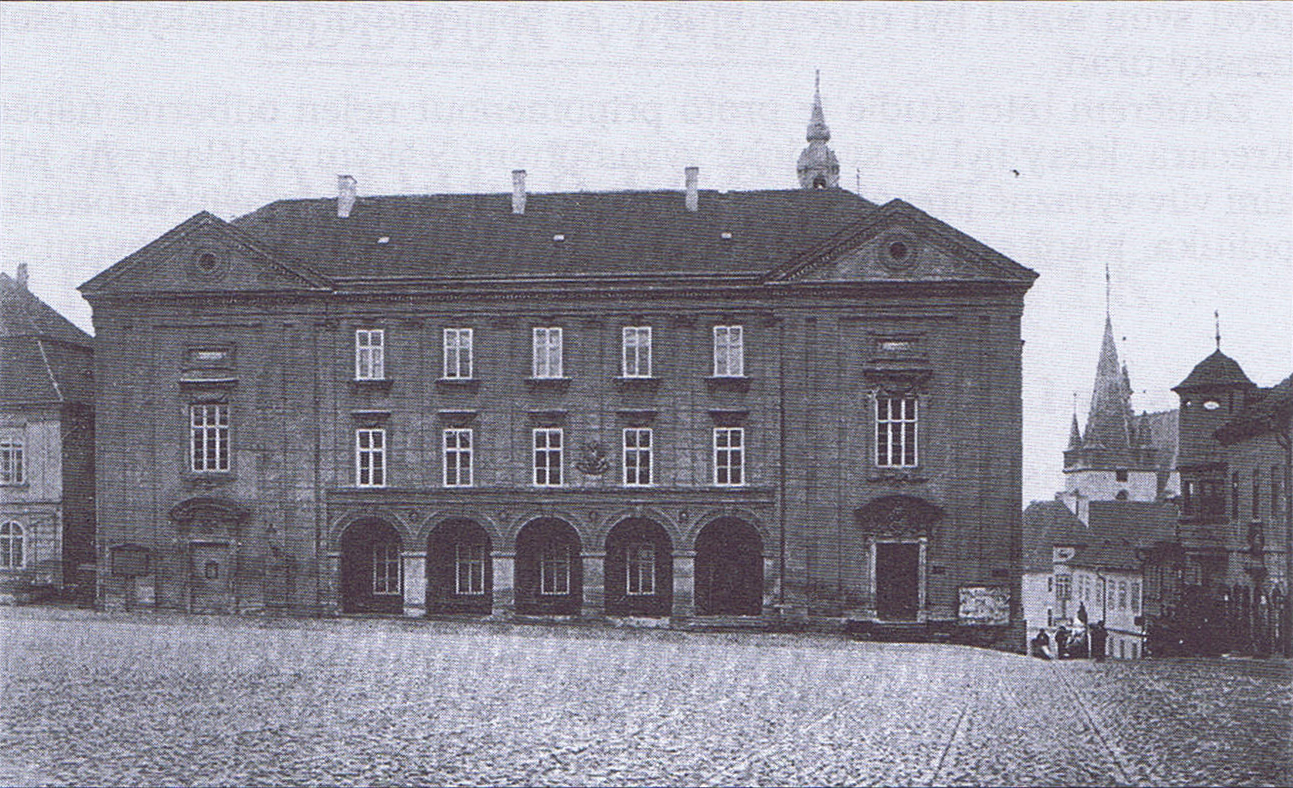 Historical picture of the building of gymnázium in Slaný.